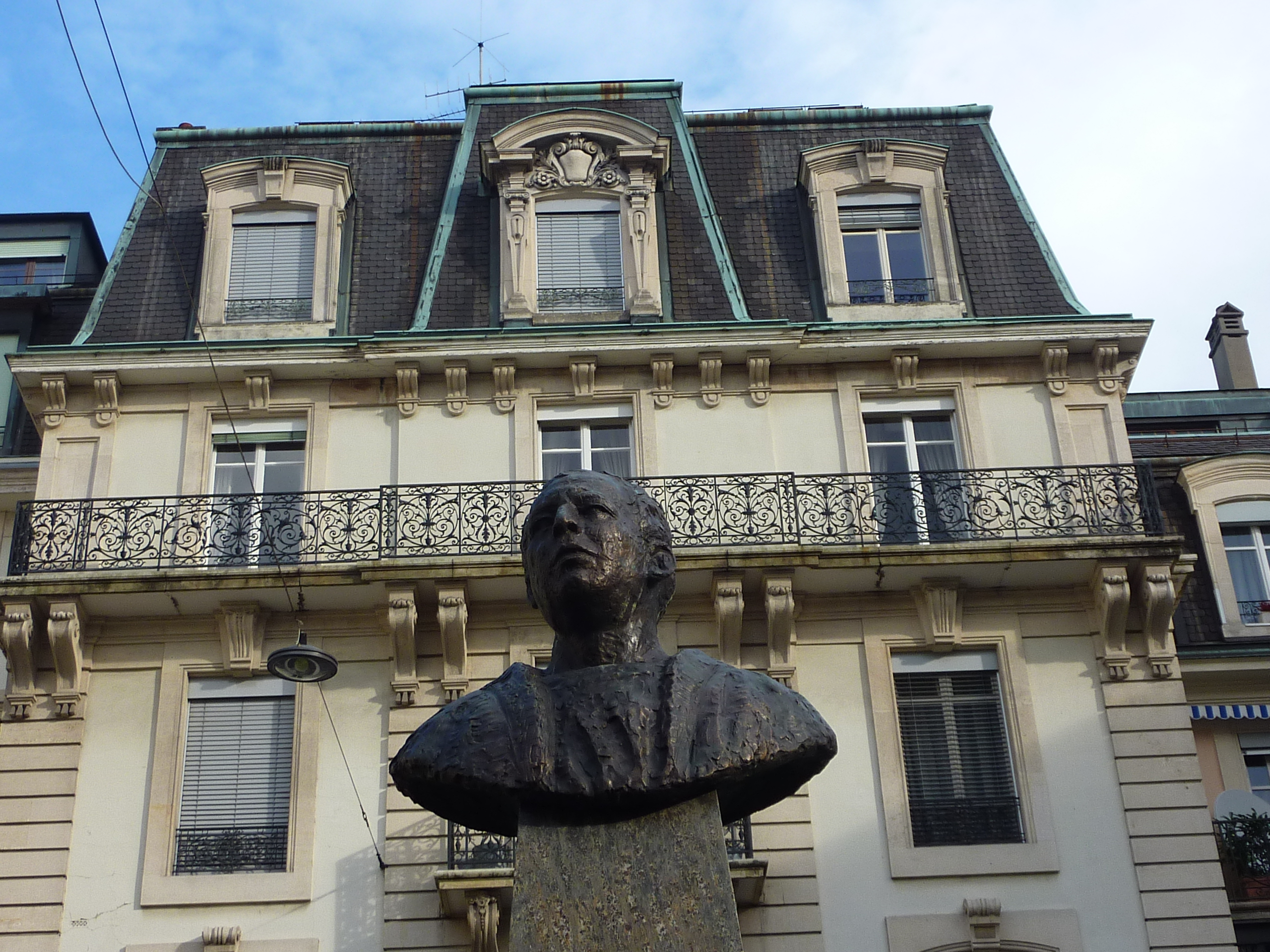 Statue of René-Louis Piachaud in a street of Geneva